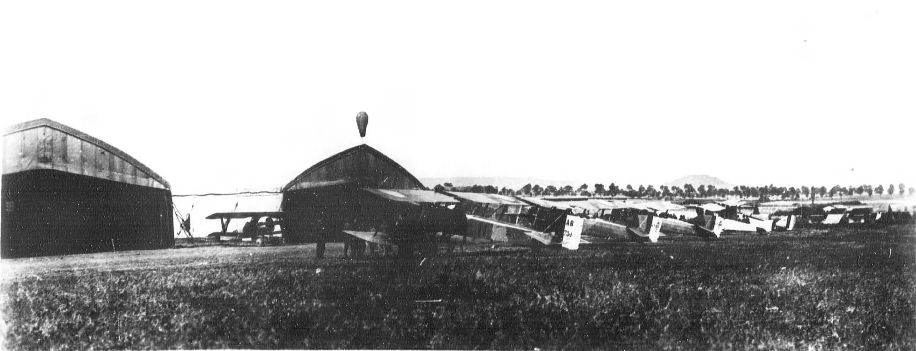 II Corps Aeronautical School - Aircraft